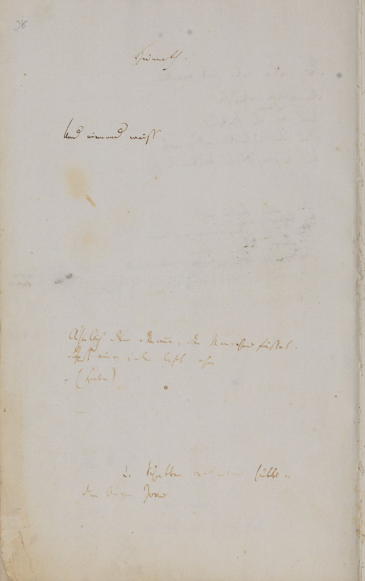 Manuscript by Hölderlin of his poem fragment Heimath, part 1